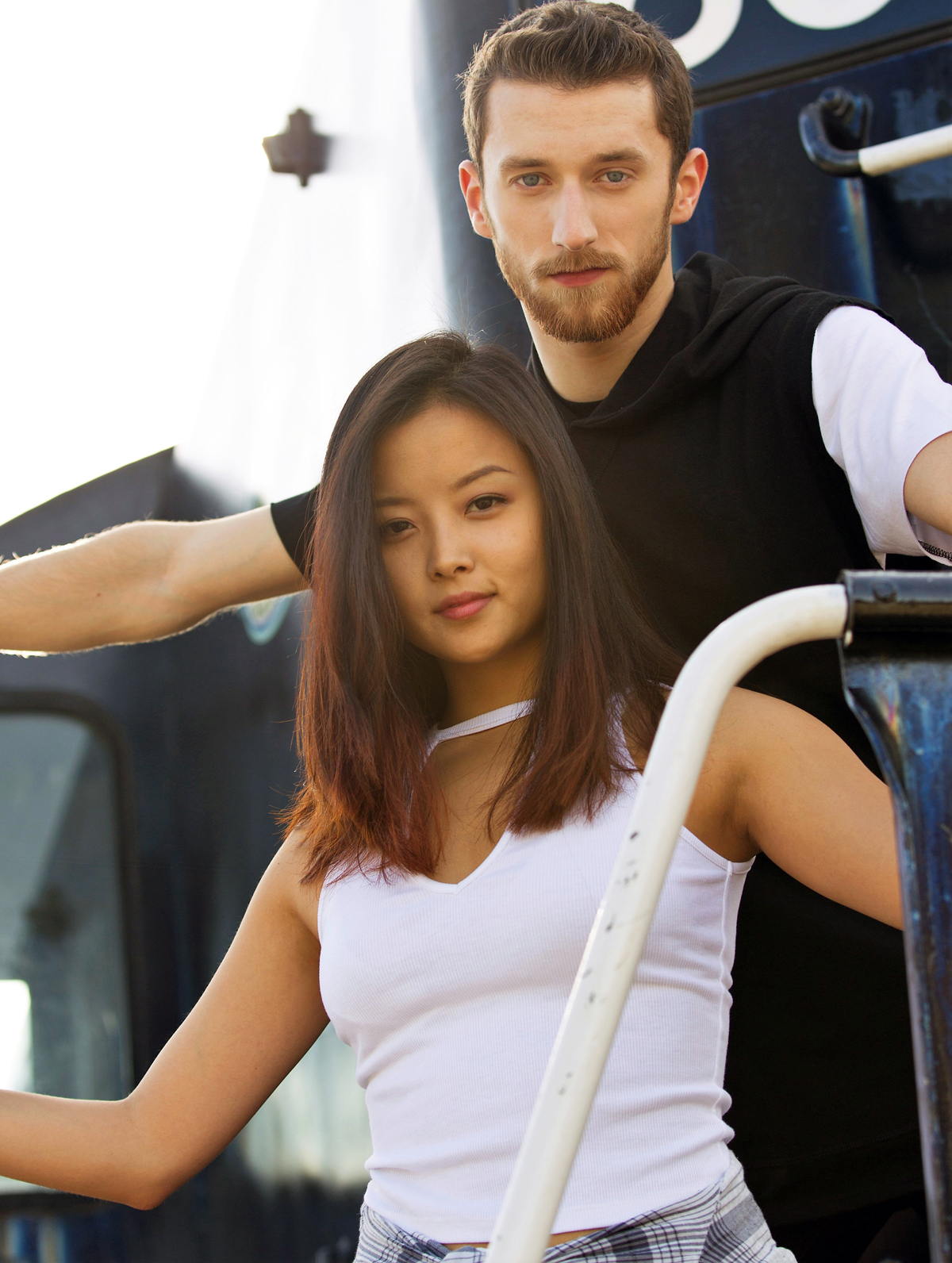 South Korean Senior Ice Dance Team, Yura Min & Alexander Gamelin, July 30, 2016 Lake Placid, New York, USA